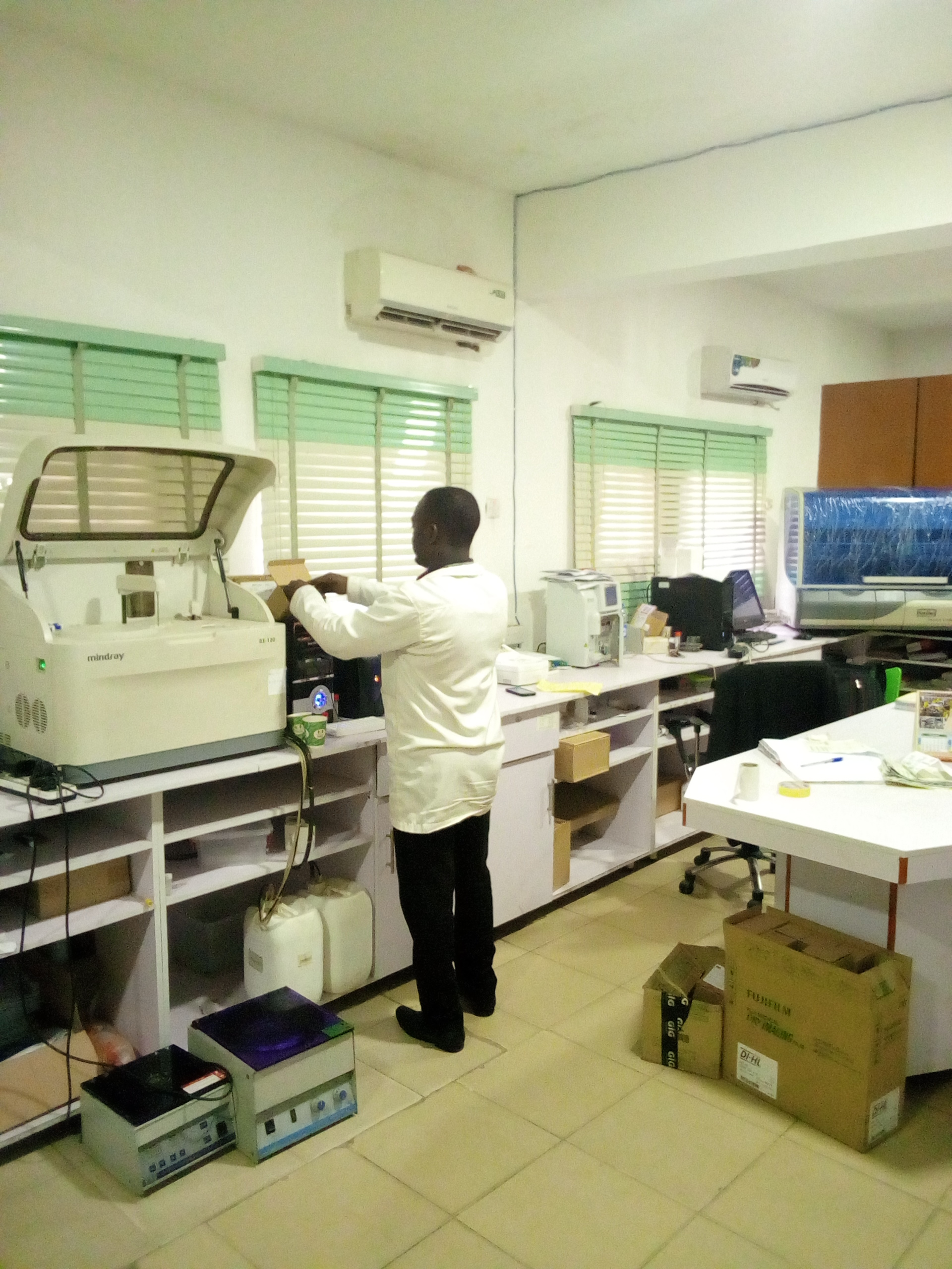 As it is well known that one of the leading challenges facing us in Africa is good and affordable healthcare. This can hardly be achieved without a good diagnostic medicine. The biomedical scientist in this picture is making use of some of the latest technology for diagnosis in a laboratory in Nigeria. This is an image of "African people at work" from Nigeria